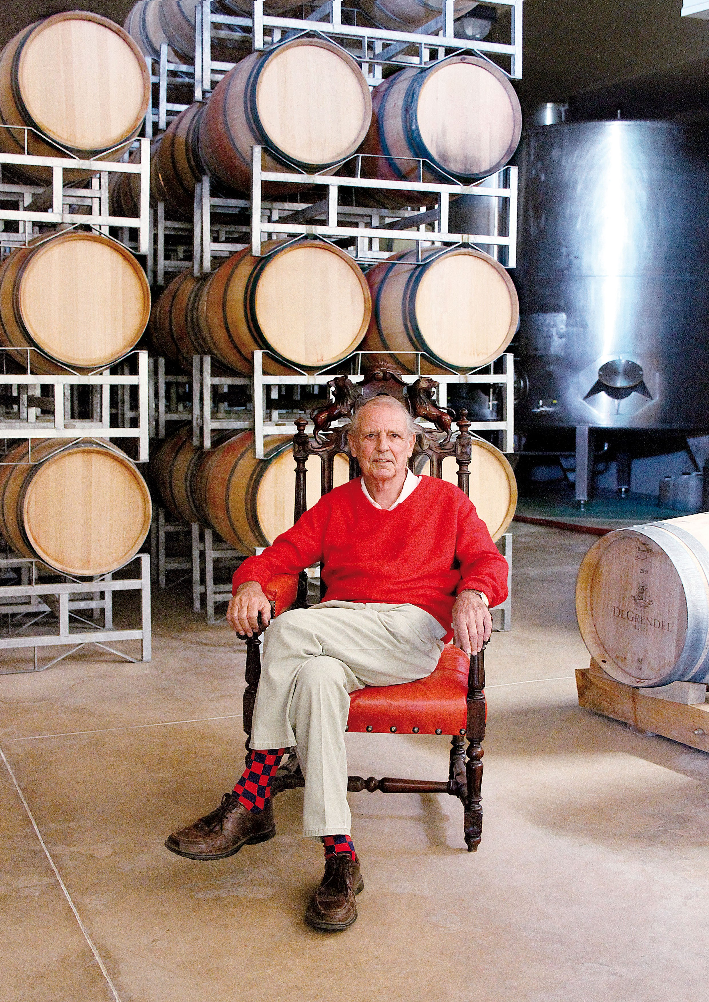 Sir David Graaff, 3rd Baronet, in the De Grendel Wines cellar.